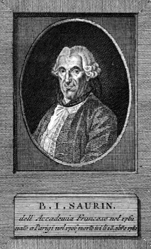 Bernard-Joseph Saurin